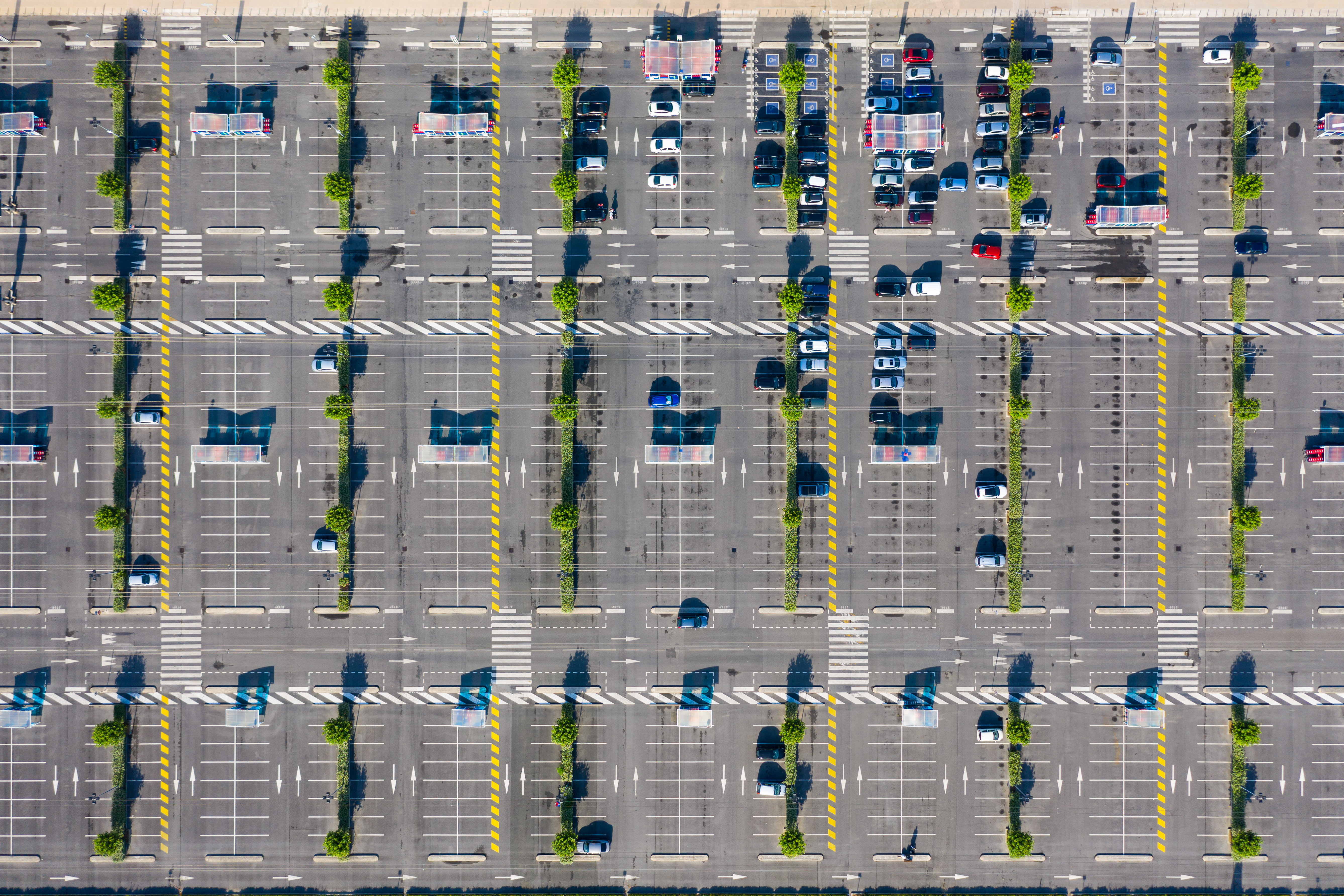 Bay 2 mall parking, on a Sunday morning, Collégien, France.